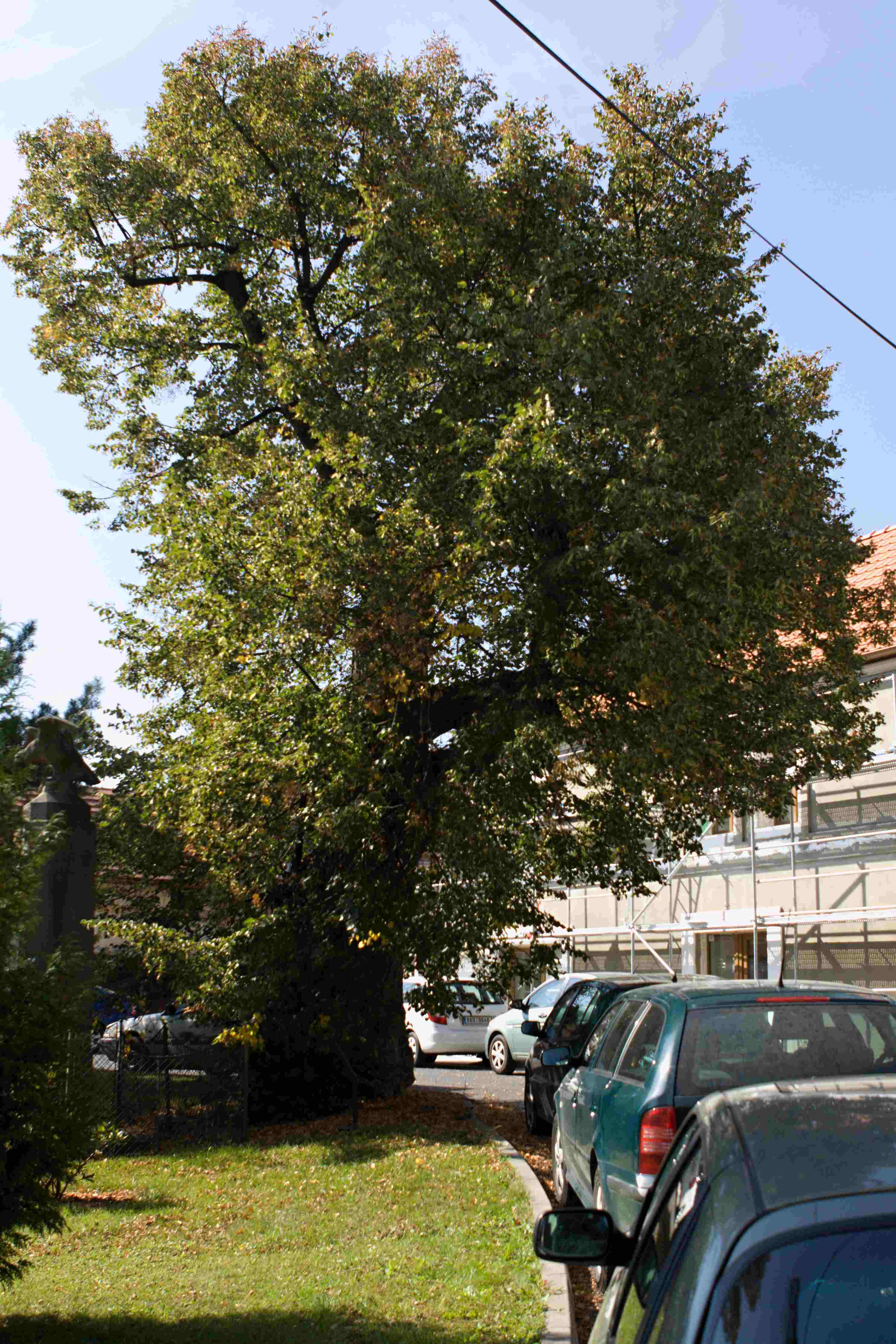 Lime-tree (Tilia cordata) in Praha - Hrnčíře.